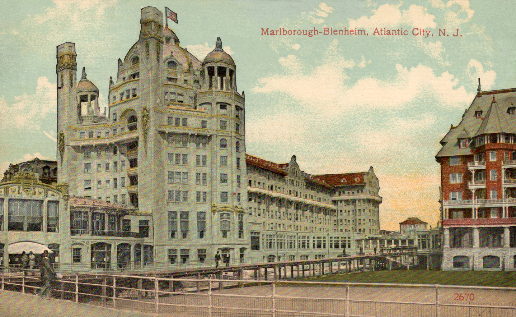 Photochrome postcard of the elegant Marlborough-Blenheim Hotel, Atlantic City, New Jersey, USA, built in 1913. Published by The Post Card Distributing Co., Atlantic City, New Jersey. The back is divided and bears a cancelled one-cent stamp of George Washington.